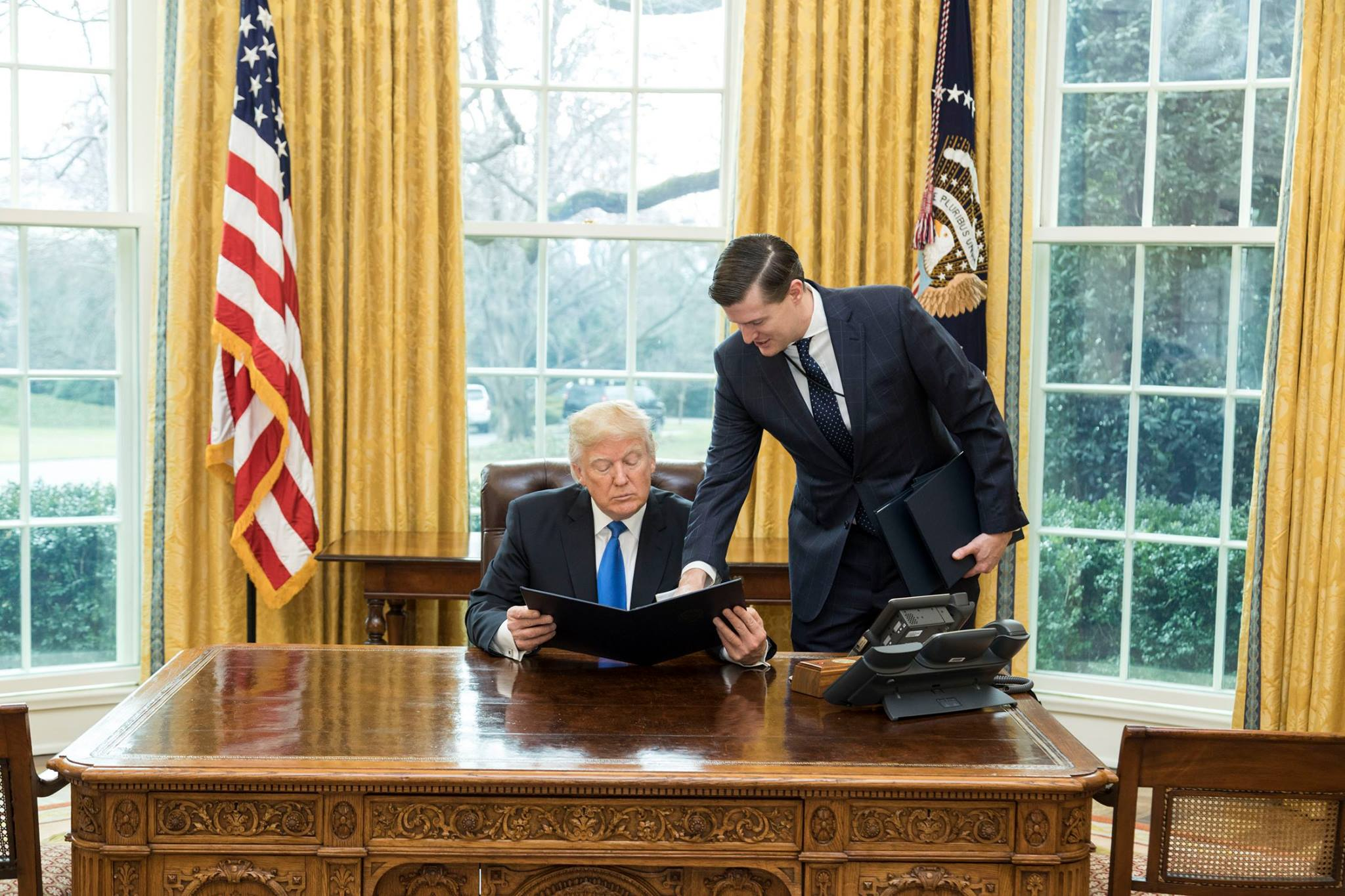 President Donald J. Trump reviews a document with White House Staff Secretary Rob Porter in the Oval Office, Tuesday, Jan. 24, 2017. (Official White House Photo by Shealah Craighead)